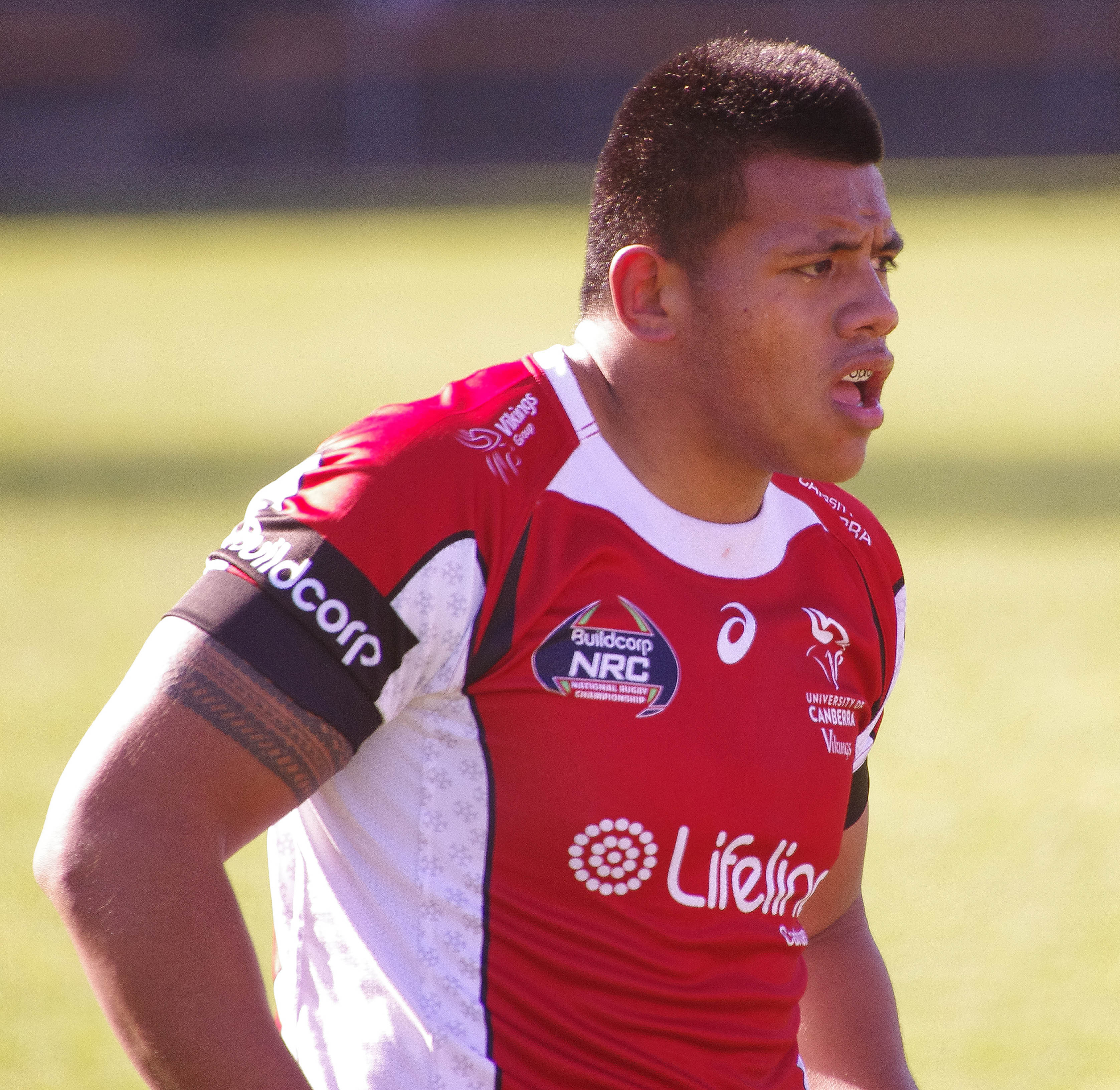 Australian rugby union player Allan Alaalatoa.